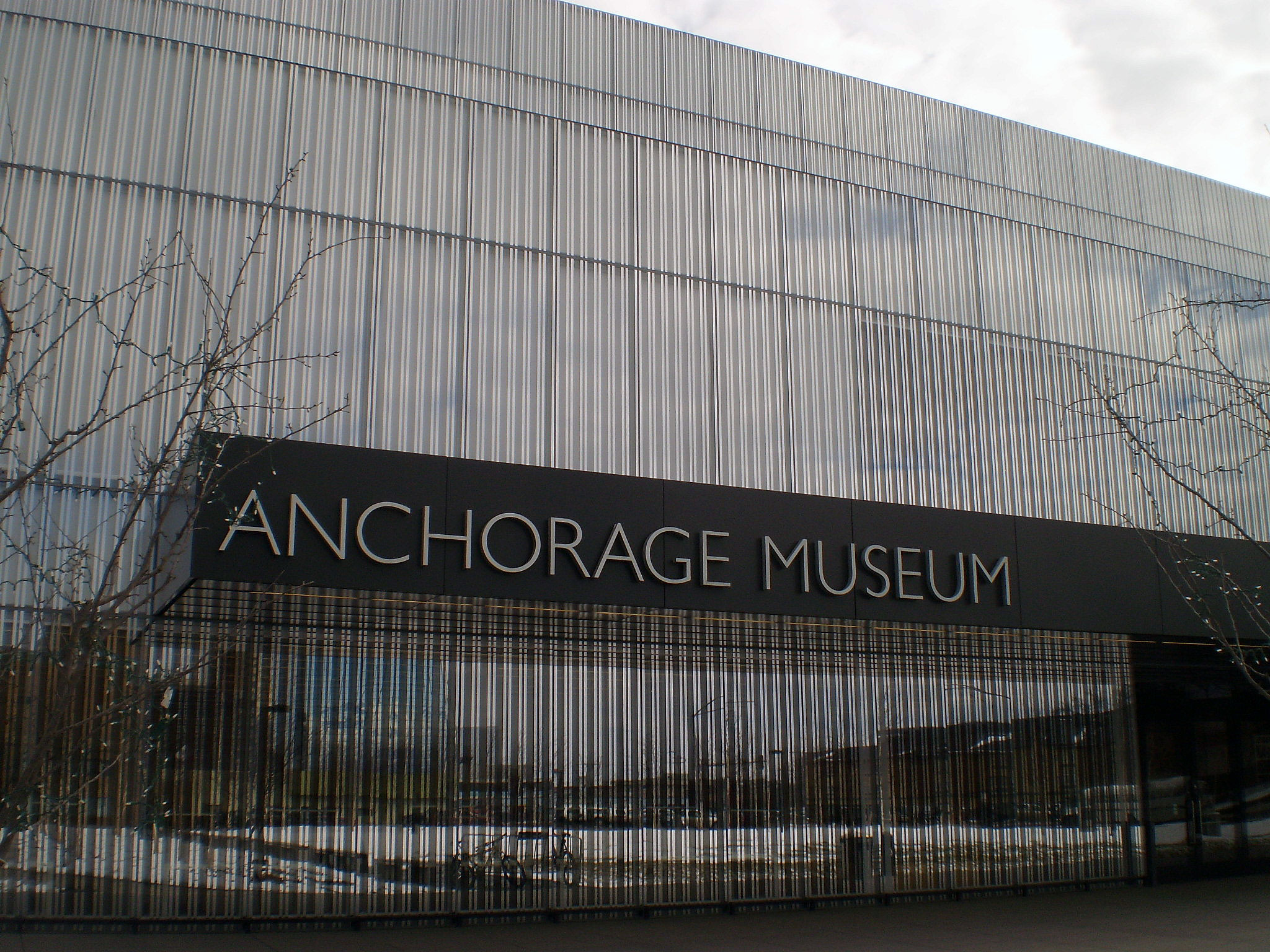 The facade of the Anchorage Museum in Anchorage, Alaska, seen here in late March 2011, includes approximately 5900 m² of custom insulated fritted glass.